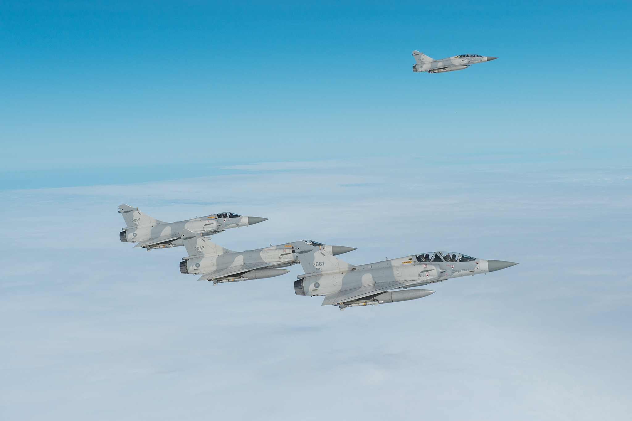 Mirage-2000 fighter jets escorting President Tsai’s chartered plane. (2017/10/28) 授權方式及範圍：中華民國總統府│政府網站資料開放宣告 Authorization Method & Scope: Office of the President, Republic of China (Taiwan) | Government Website Open Information Announcement